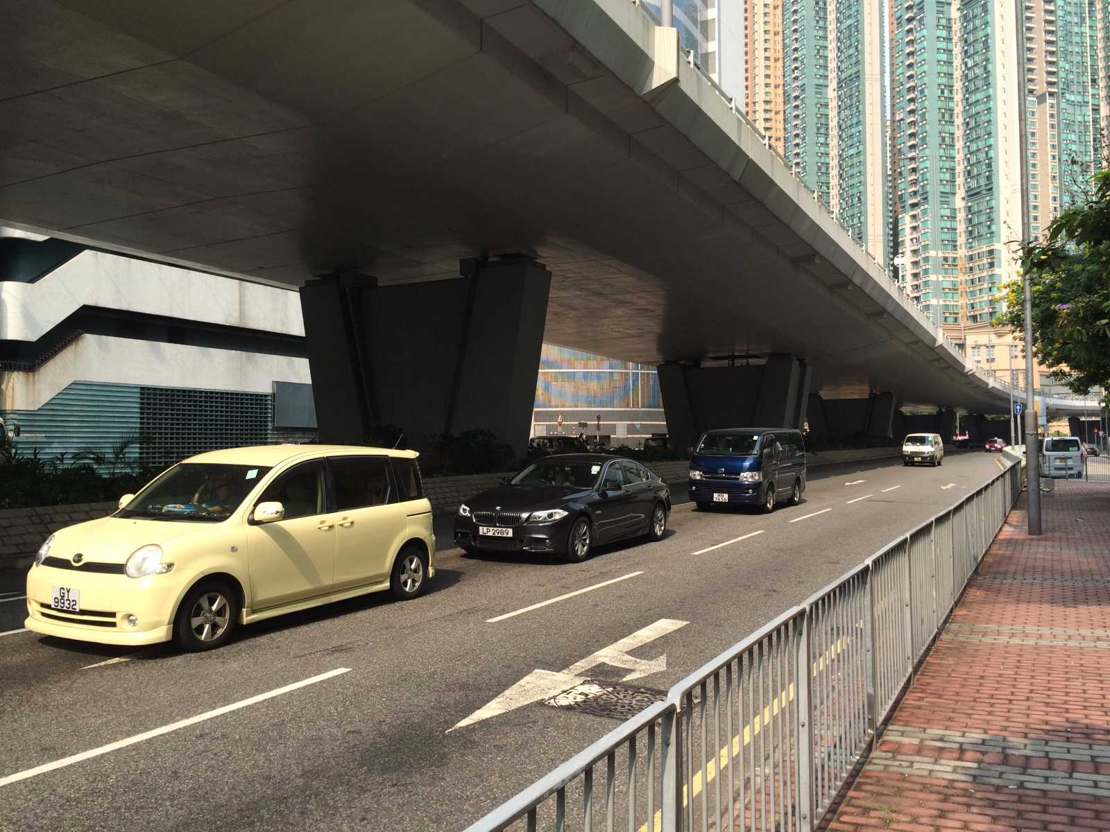 Tung Chau Street near The Pacifica